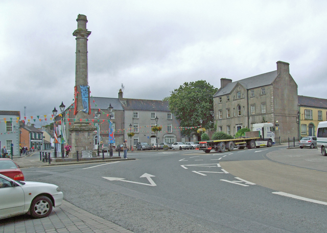 Emmet Square Birr The square was re-named Emmet Square in 1922 to honour Robert Emmet the United Irish leader who was executed in 1803 after being found guilty of treason for leading an uprising in Dublin. The column in the centre of the square used to bear a statue of the Duke of Cumberland a decisive figure in the Jacobite wars in the 1700s. The statue was taken down in the early in the 20th. century when it was in danger of falling off the column.